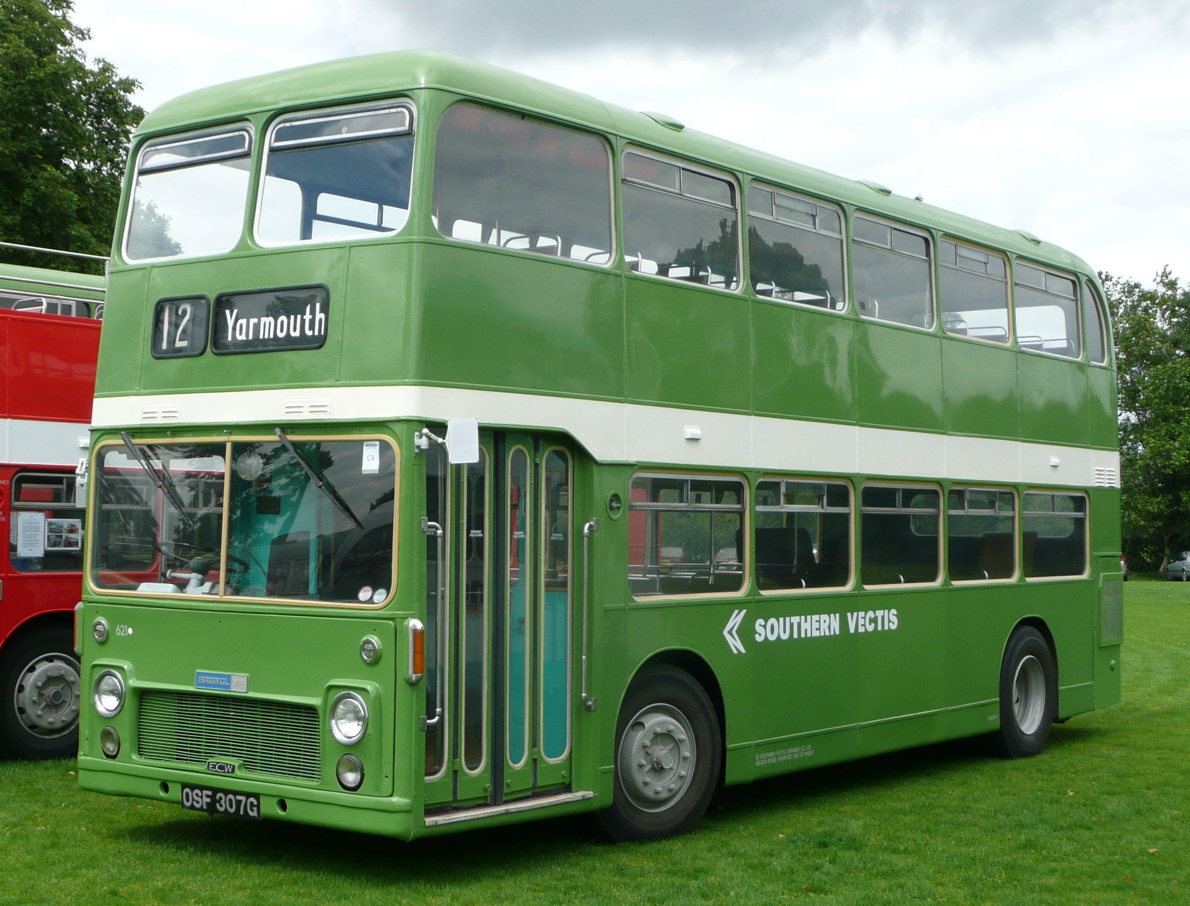 A now preserved Bristol VR registered on 11th June 1969 and originally operated by Scottish Omnibus (fleet number AA307), and subsequently run by Southern Vectis. It is seen at the 2008 Alton bus rally.